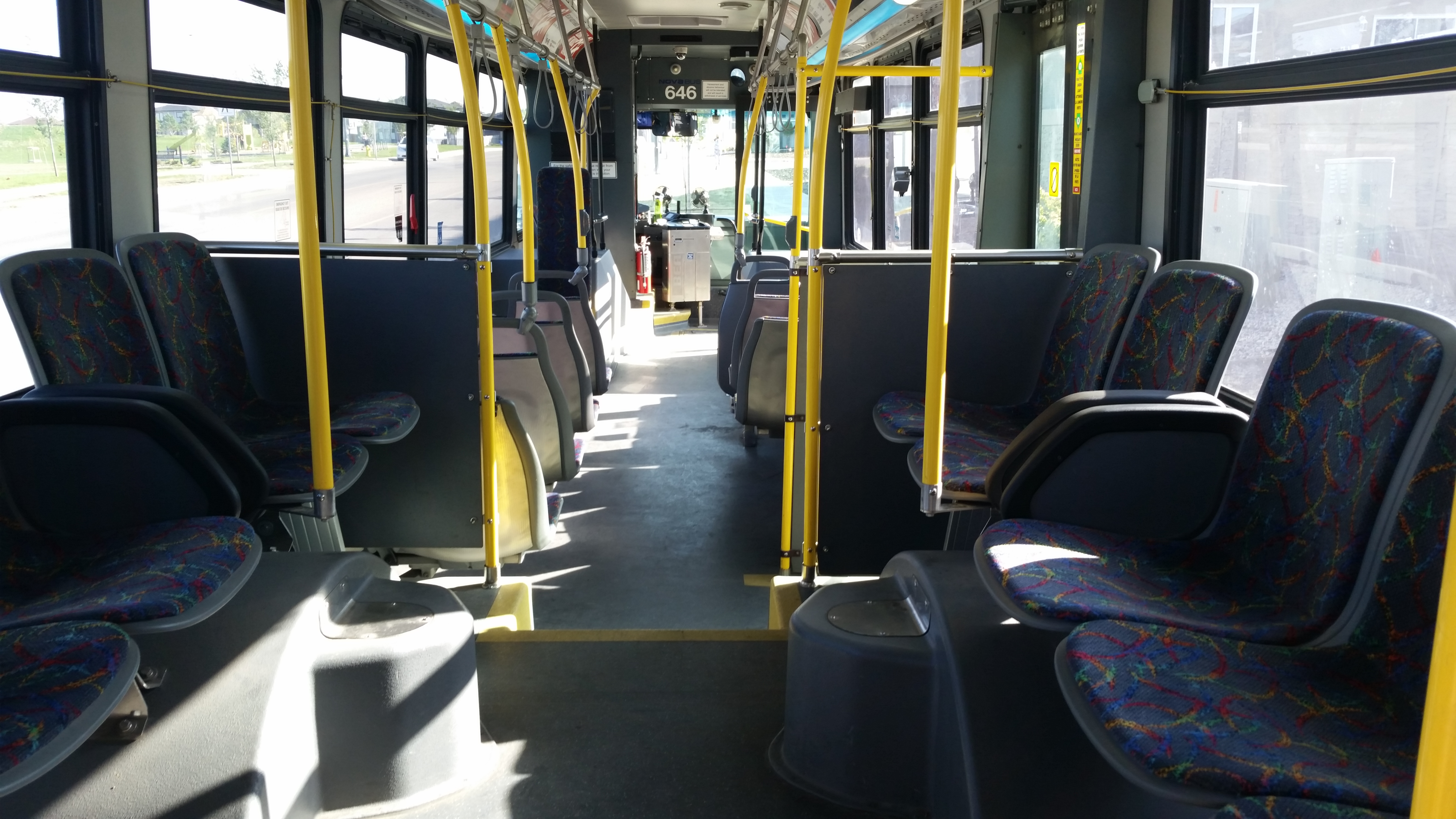 Cabin of Regina Transit bus 646, showing the old seats. August 2018